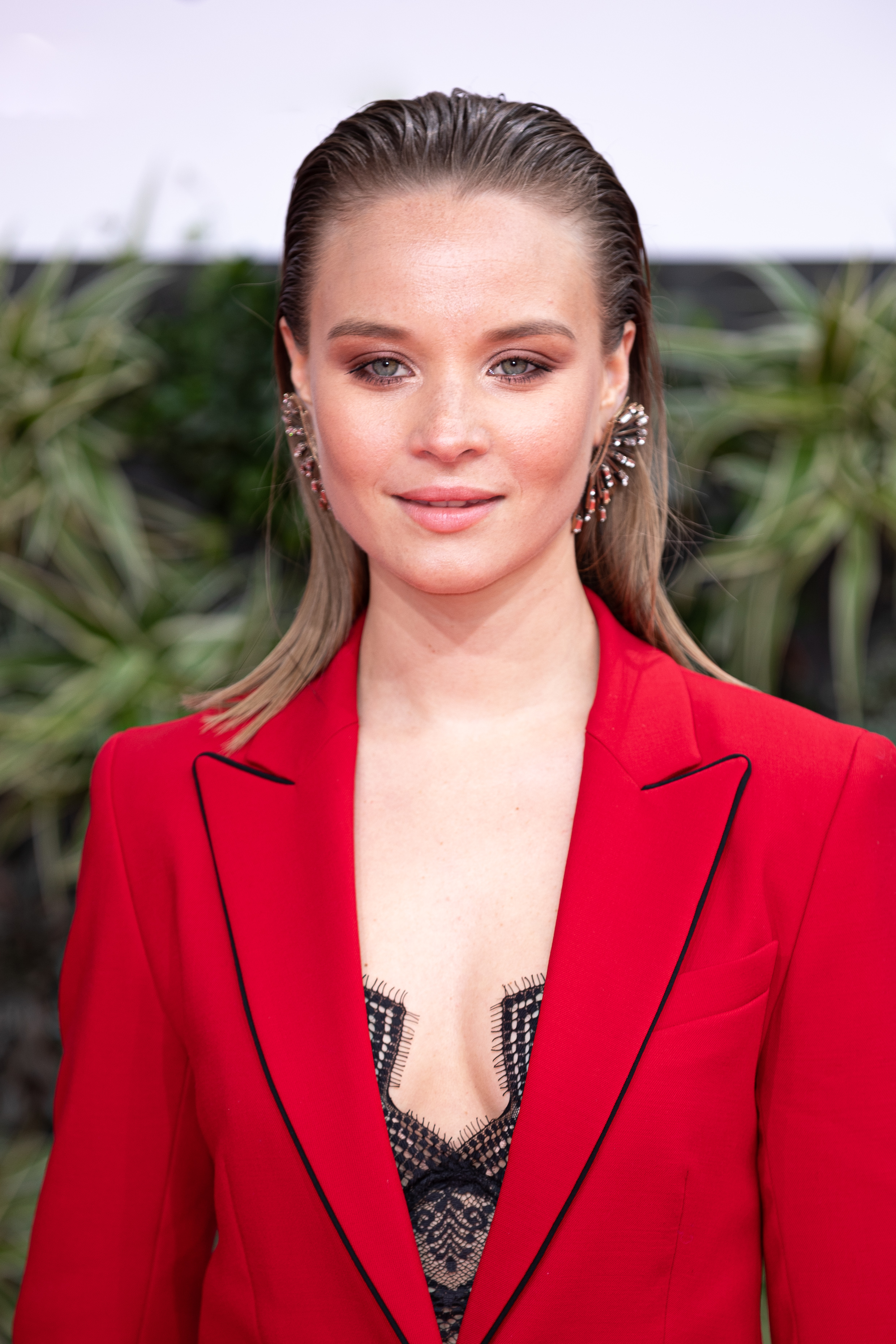 Sonja Gerhardt on the red carpet of the German Film Award 2019, Palais am Funkturm, Berlin.